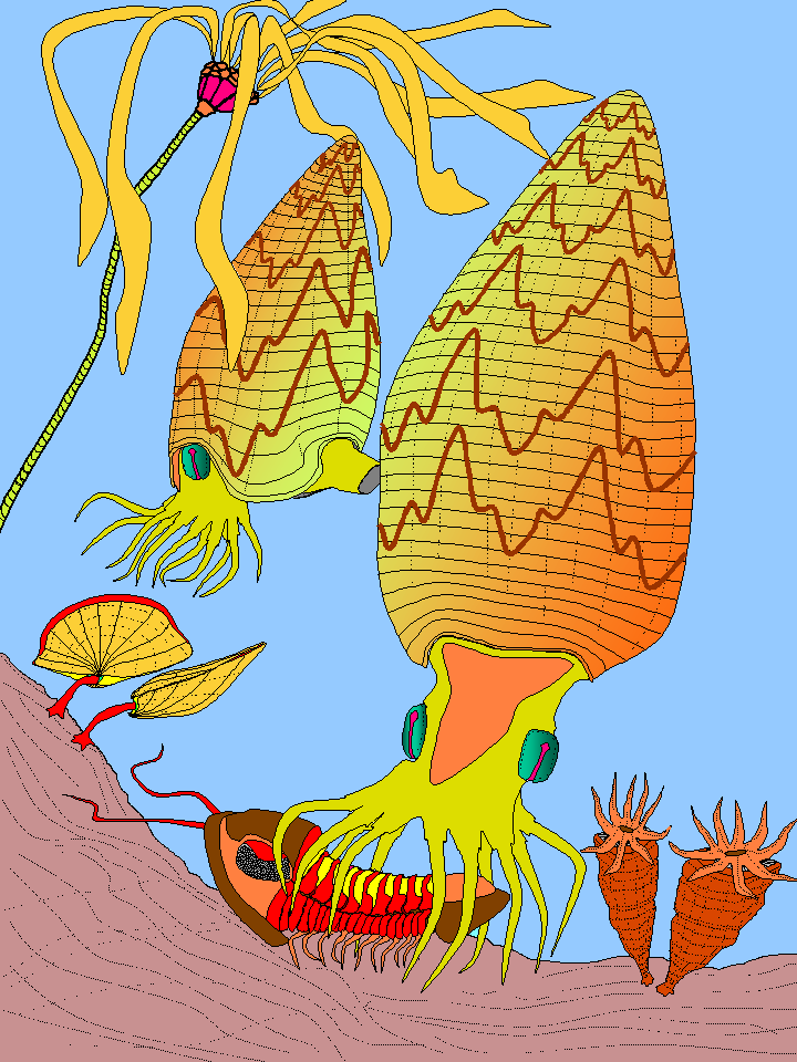 sketch of oncocerid nautiloids predating on trilobites and brachiopods.